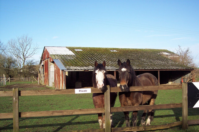 Ears Pricked Ponies waiting by the fence in the village of Ford.